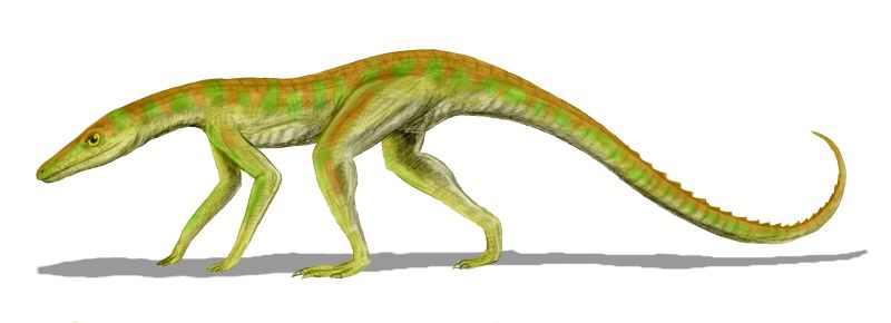 Terrestrisuchus gracilis, a sphenosuchian from the Late Triassic of Great Britain, pencil drawing